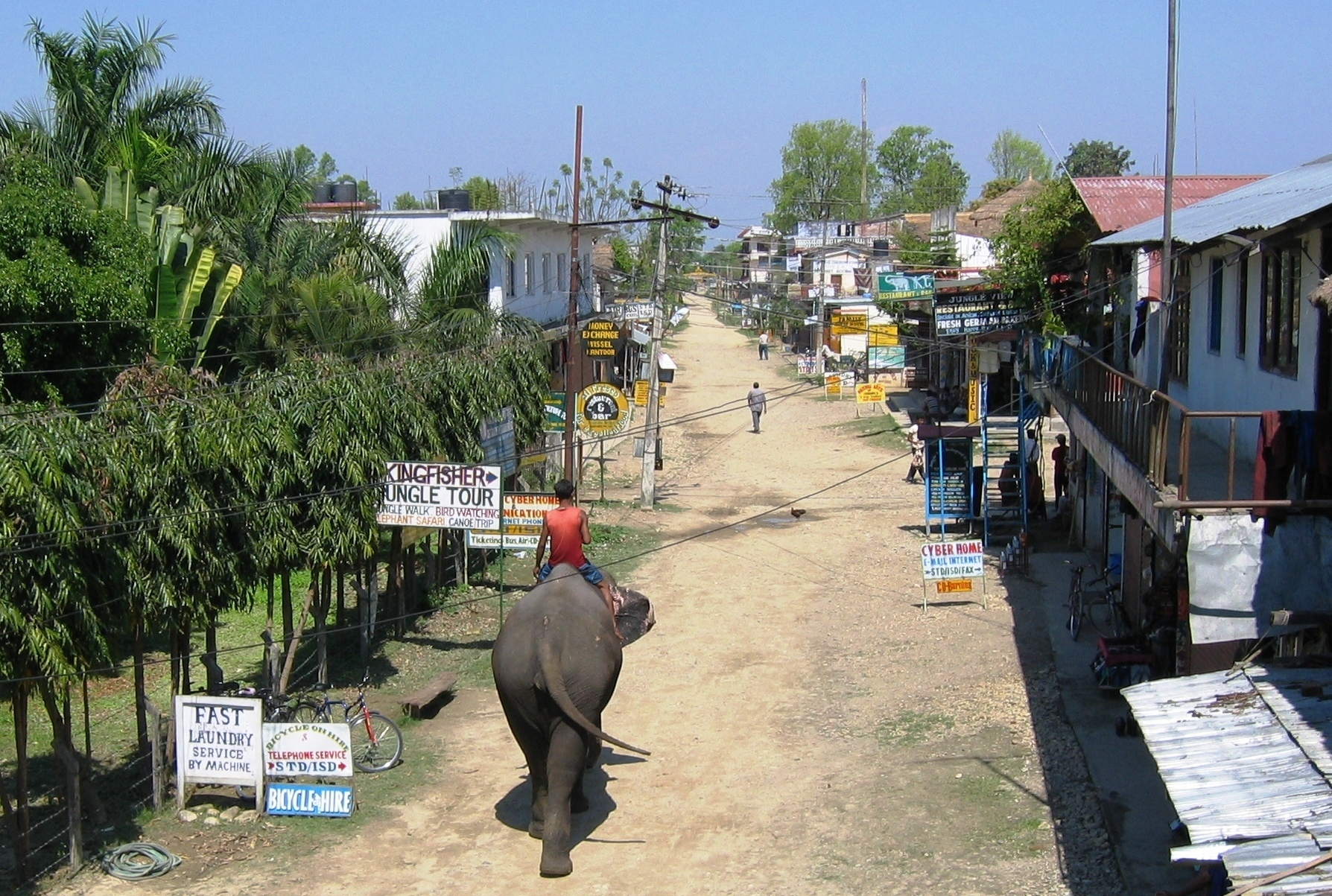 Sauraha Vilage in Nepal